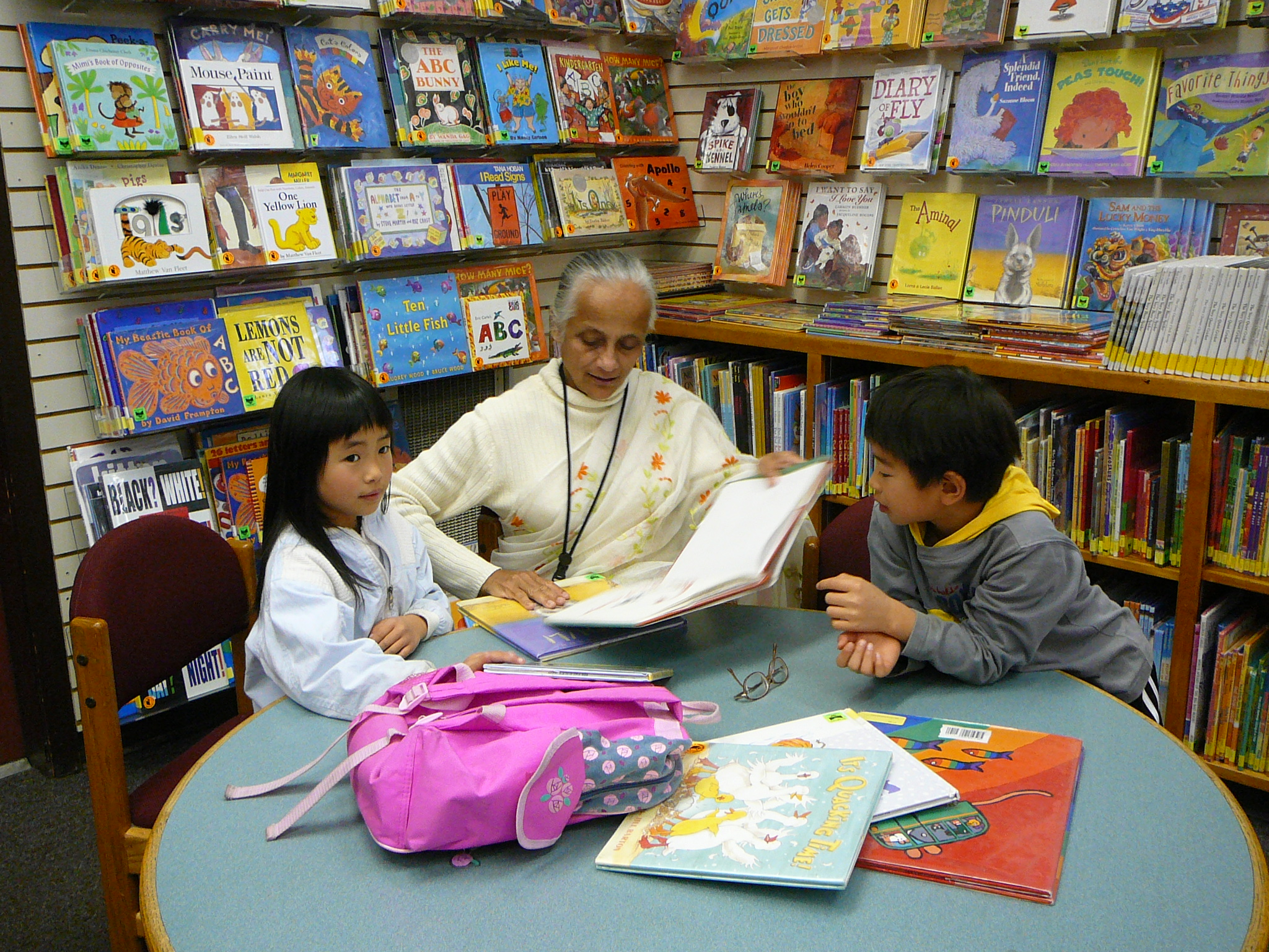 Reading to children, San Jose Library, California